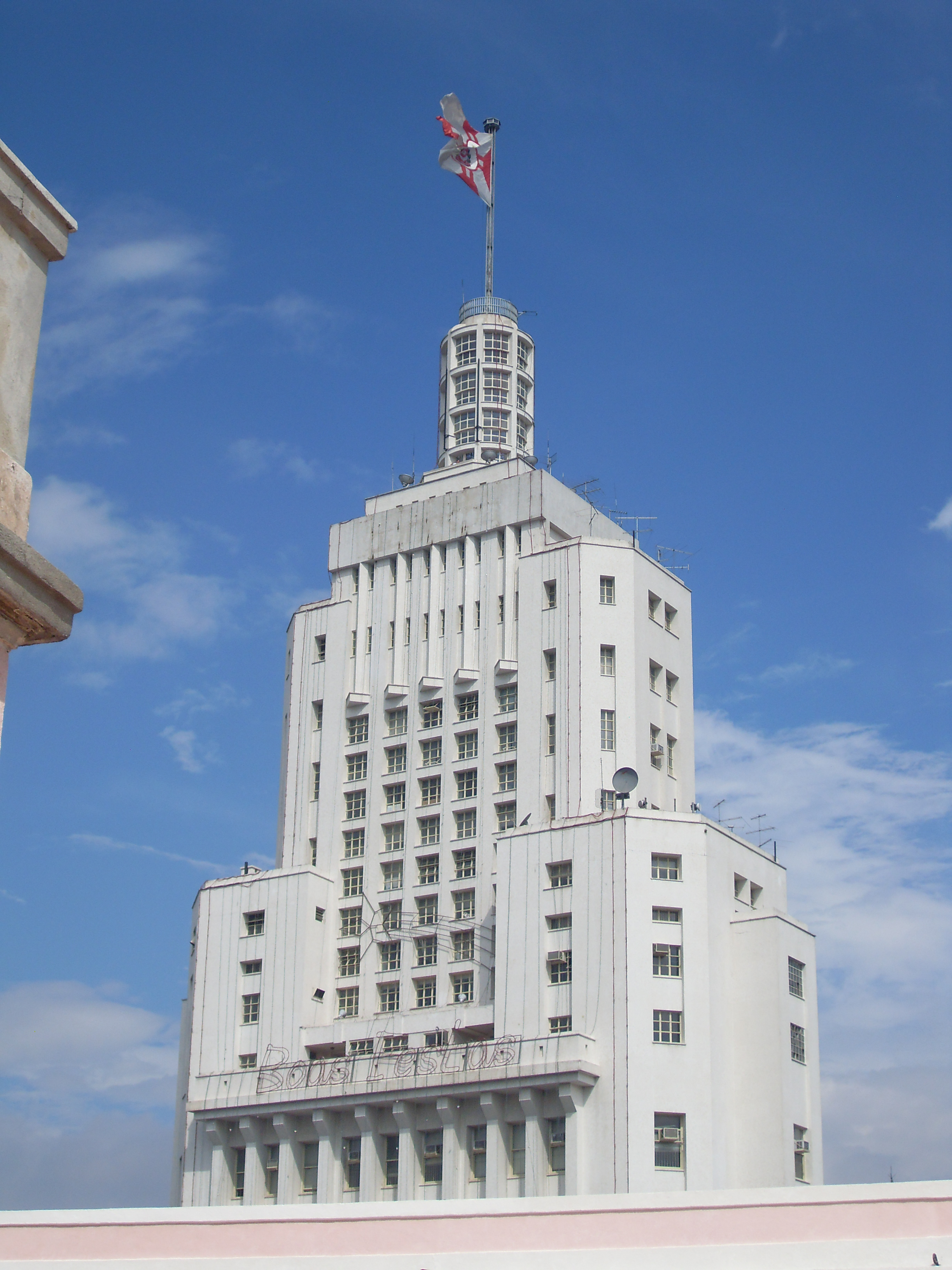 View of the Altino Arantes Building (Banespa Building) from the rooftop of Martinelli Building. The São Paulo City flag is in place of the São Paulo State flag due to the city anniversary celebration.